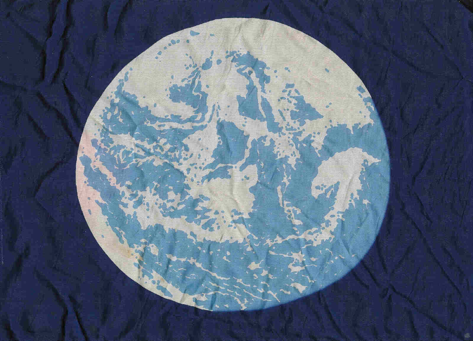 My scan of an early 1970s earth flag with Apollo 10 earth image.